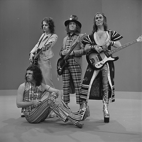 Slade in AVRO's TopPop (Dutch television show) in 1973